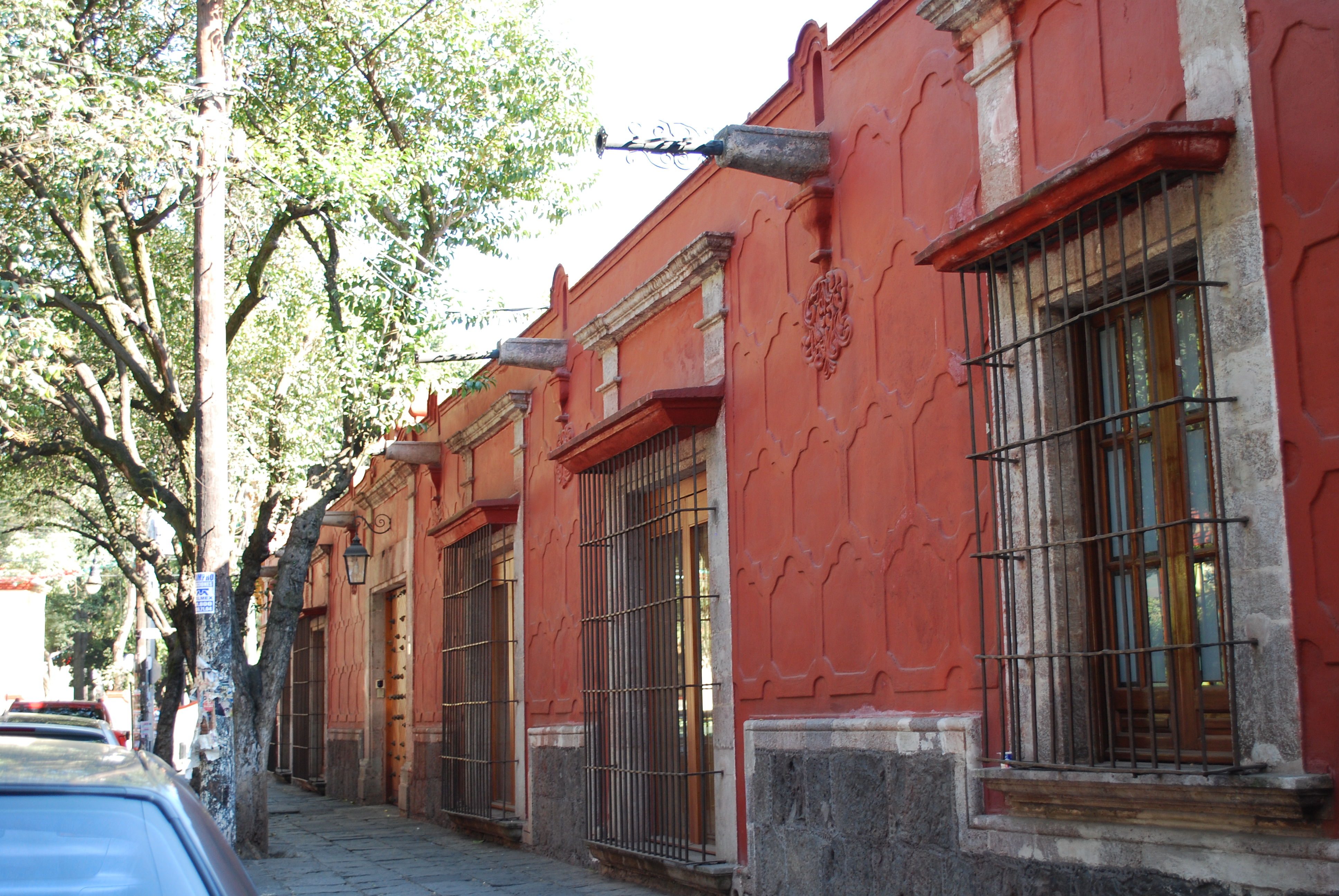 Closeup of part of the facade of the Casa de Diego Ordaz in Coyoacan, Mexico City